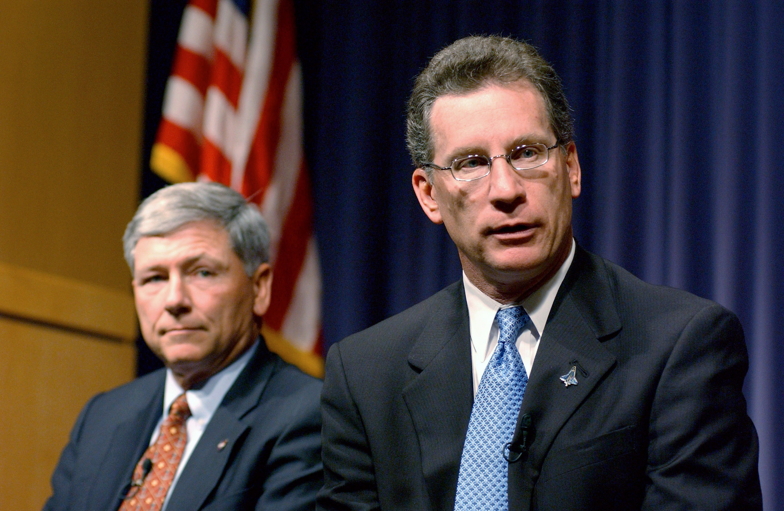 Ronald D. Dittemore (right), a 26-year NASA veteran, announces his intention to step aside as the Space Shuttle Program Manager at the Johnson Space Center in Houston to pursue other opportunities. Also pictured at the Washington, DC announcementis Michael Kostelnik, Deputy Associate Administrator for the Space Shuttle and International Space Station Programs. Dittemore, who has served as the Shuttle Program Manager formore than four years, will remain in his current position until the Columbia Accident Investigation Board finishes its investigation and a complete "Return to Flight" path has been established. Dittemore retired recently, he had publicly planned to do so before the accident. For more information on STS-107, please see GRIN Columbia General Explanation